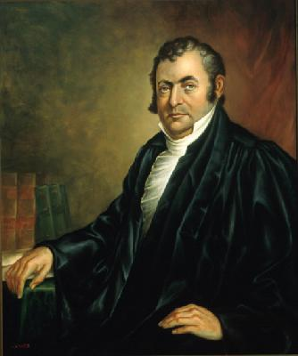 The official portrait of Supreme Court Justice Robert Trimble.